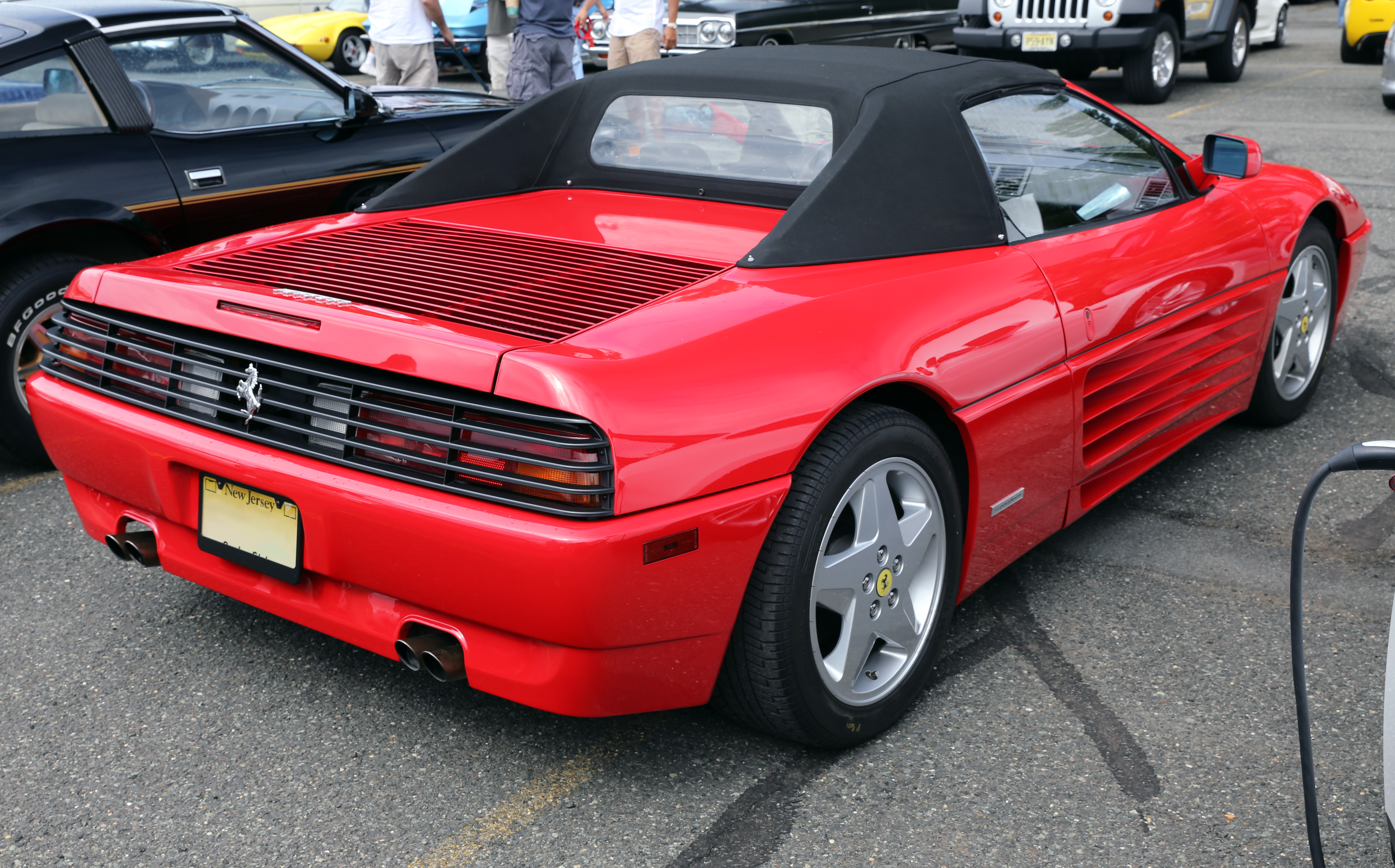 Rear view of 1993 Ferrari 348 Spider